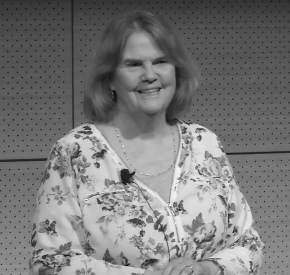 Larsen-Freeman's presentation at The New School in 2018